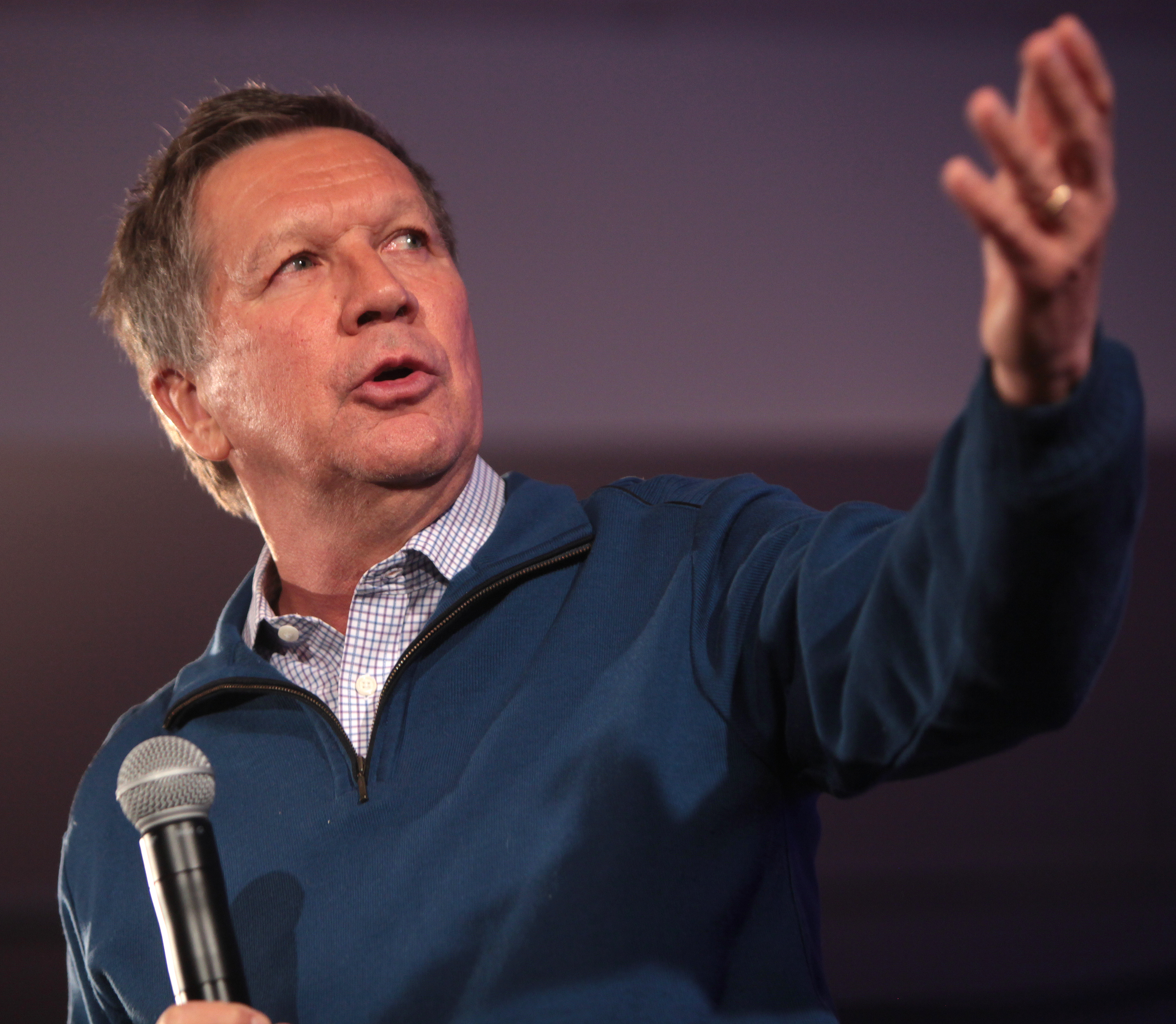 John Kasich